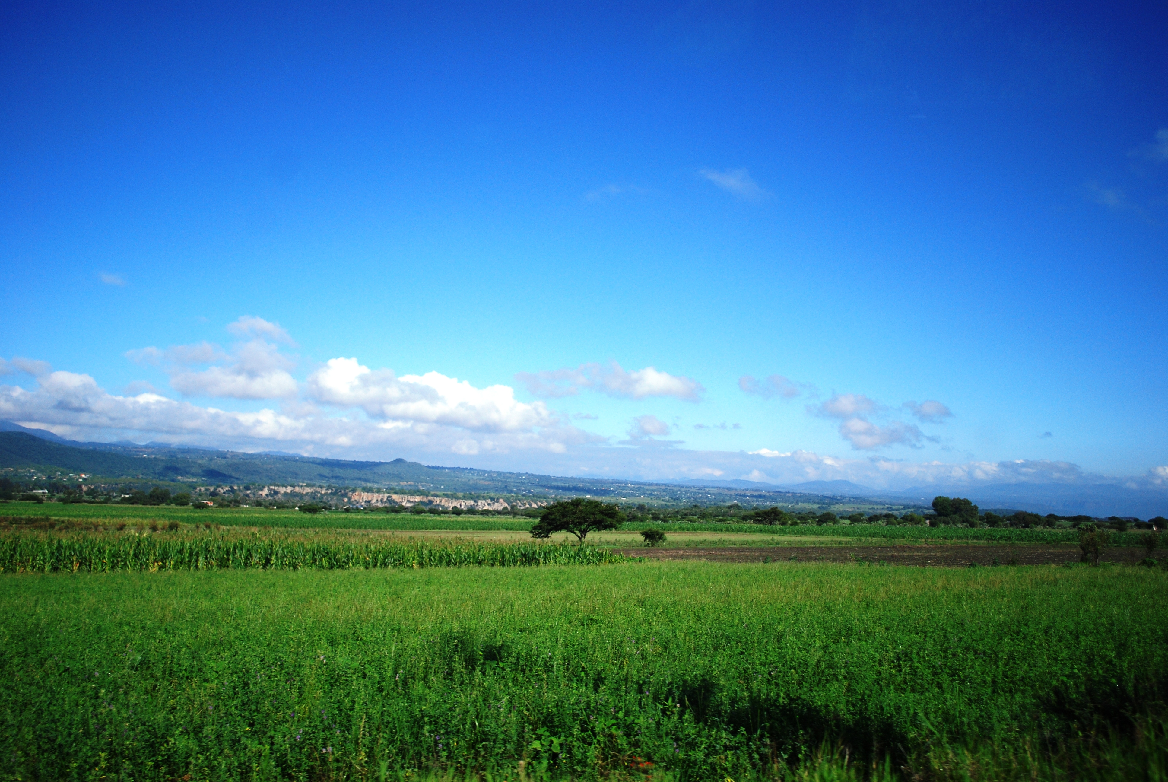 View of the Tulancingo Valley in Huasca de Ocampo, Hidalgo, Mexico